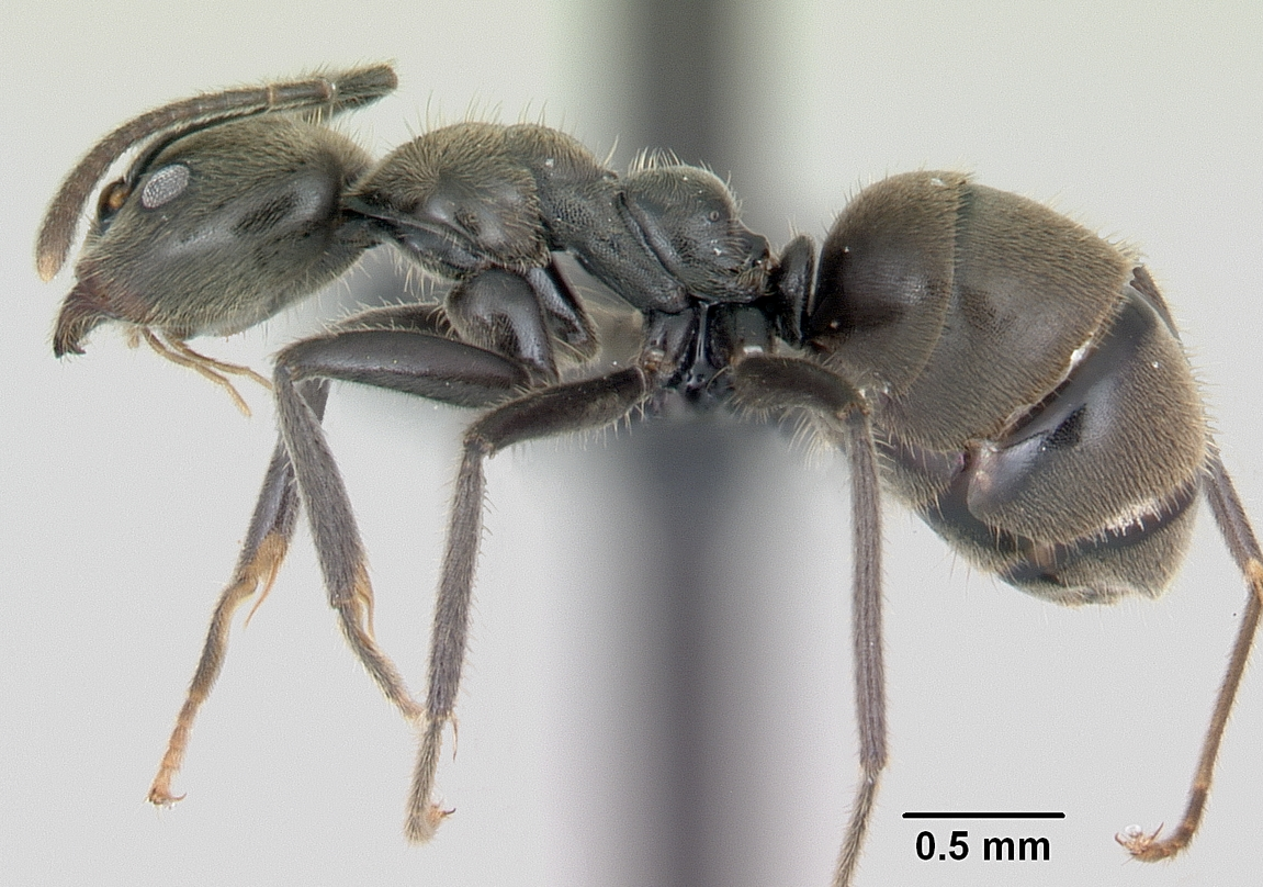 Profile view of ant Anonychomyrma gilberti specimen casent0069883.